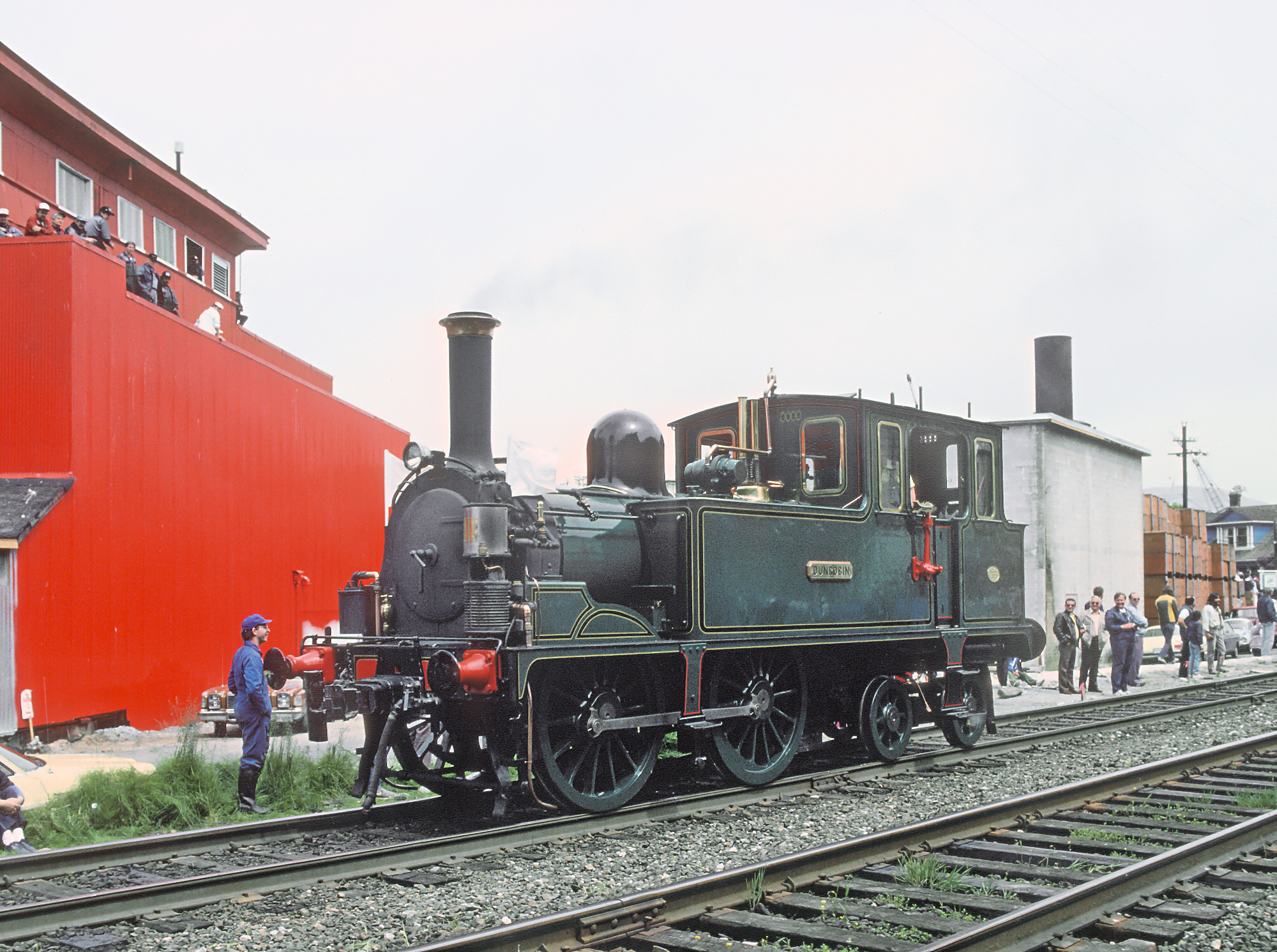 In the Steam Expo Parade of Canadian and U.S. steam locomotives at the 1986 World Exposition on Transportation and Communication (Expo 86), a World's Fair held in Vancouver, BC, Canada. This is one of 17 photos. A Roger Puta Photograph